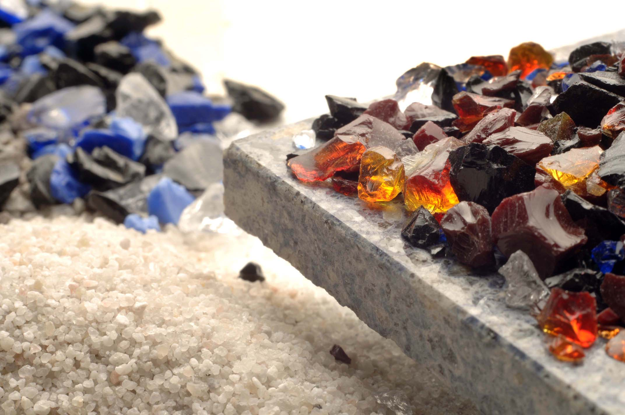 Technistone product